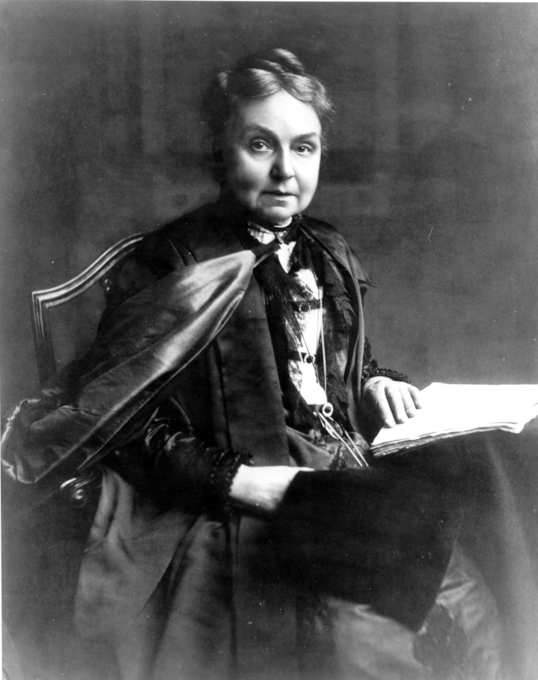 Photographic portrait of Scottish women's education reformer Janet Anne Galloway